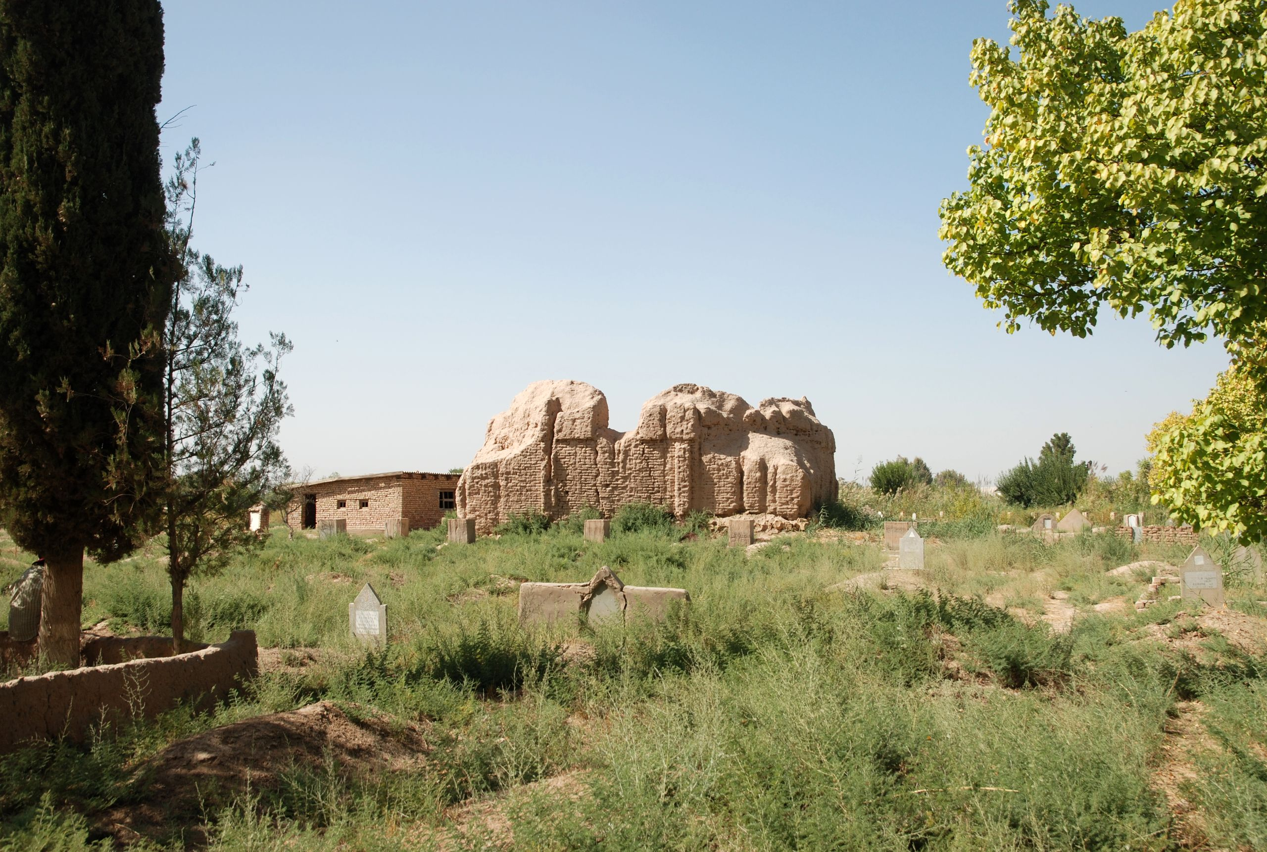 Khoja Sarboz, 5 km south of Shahrtuz